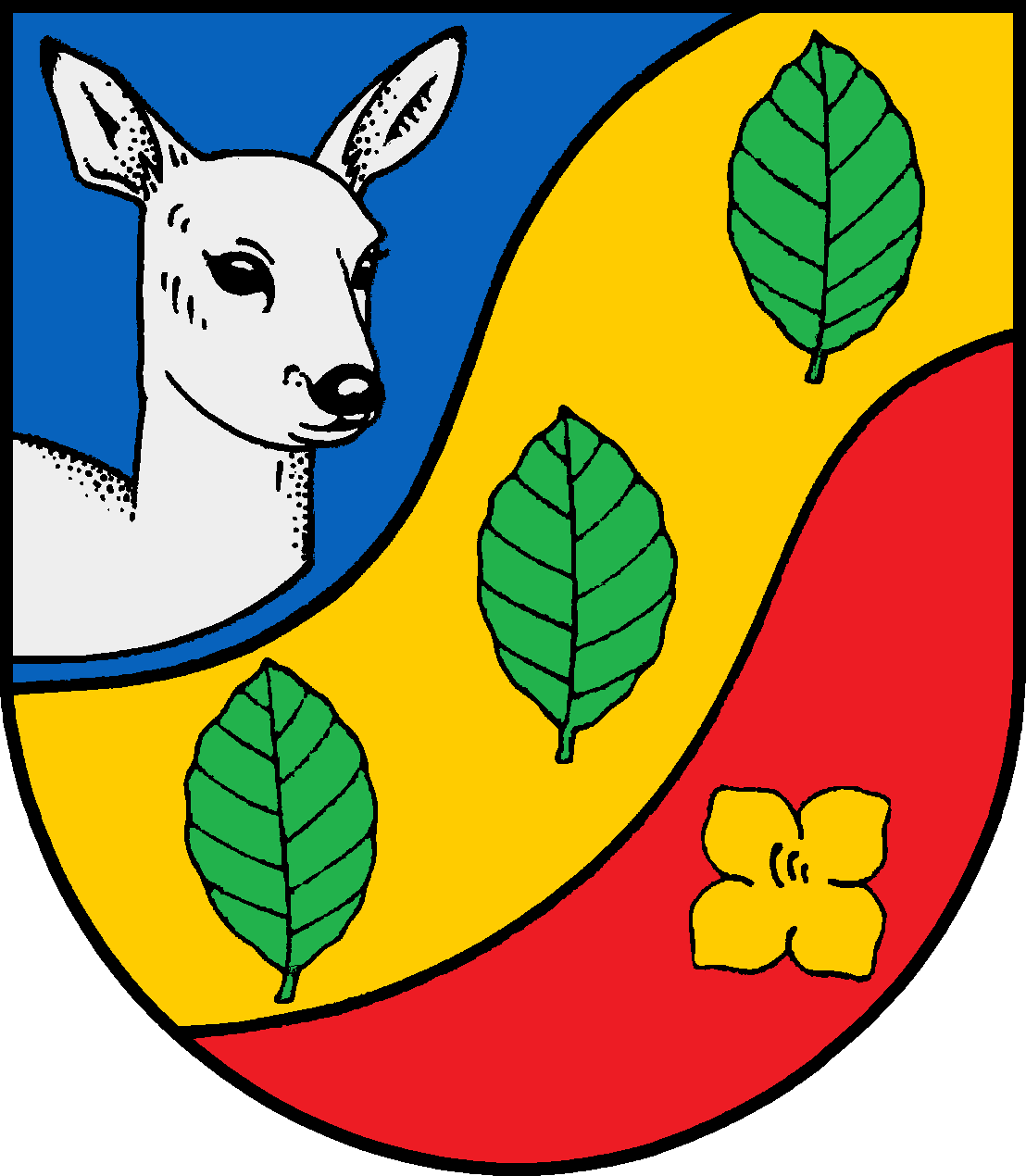 Coat of arms of the municipality Rehhorst in Schleswig-Holstein, Germany.